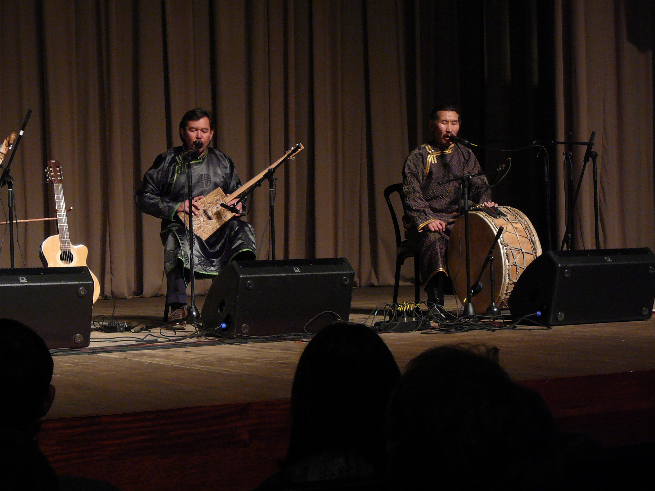 Members of the musical group "Huun-Huur-Tu" of Tuva, Russia: Sayan Bapa and Aleksey Saryglar.